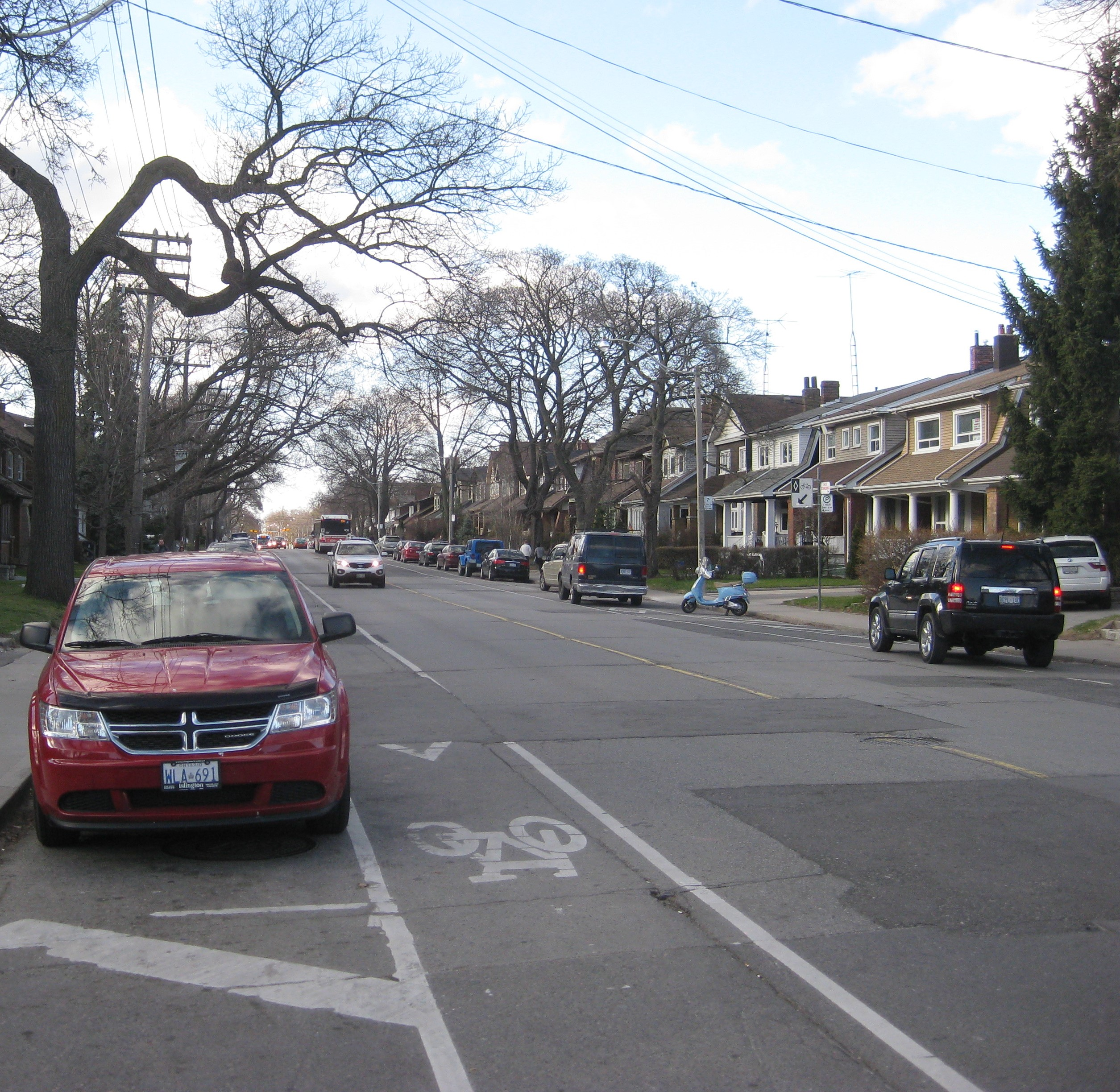 Looking north on Runnymede Road in Toronto, Canada.